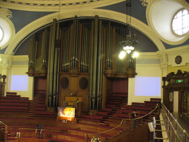 Methodist Central Hall Organ inside the hall of the Wesleyan church in Westminster. It houses conference facilities and was the location for the first assembly of the UN in 1946.